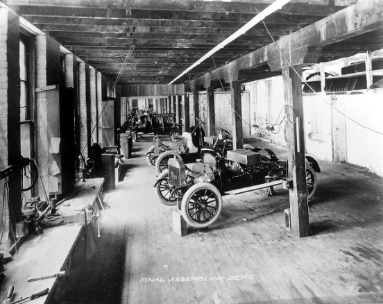 4x5 black and white photograph of the interior of the Carter Car Motorcar Company factory, image inscribed " Final Assembling Dept."